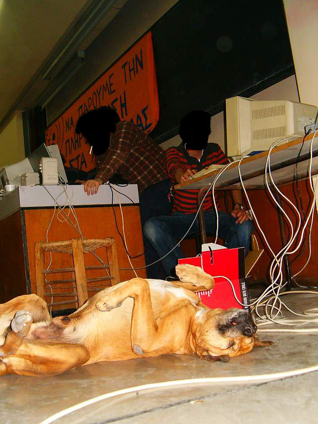 Kanelos